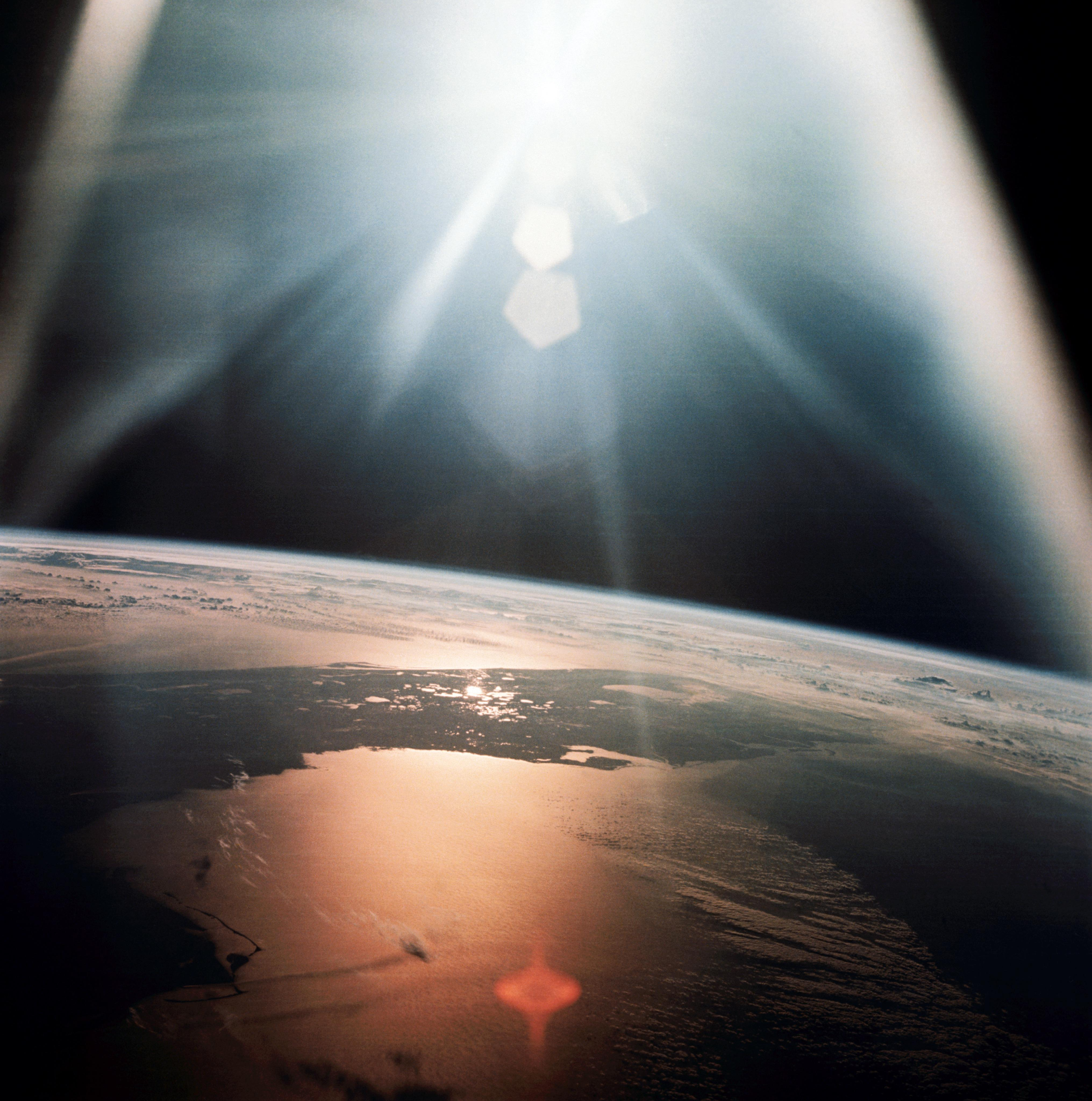 Apollo 7 photo of Florida (NASA)